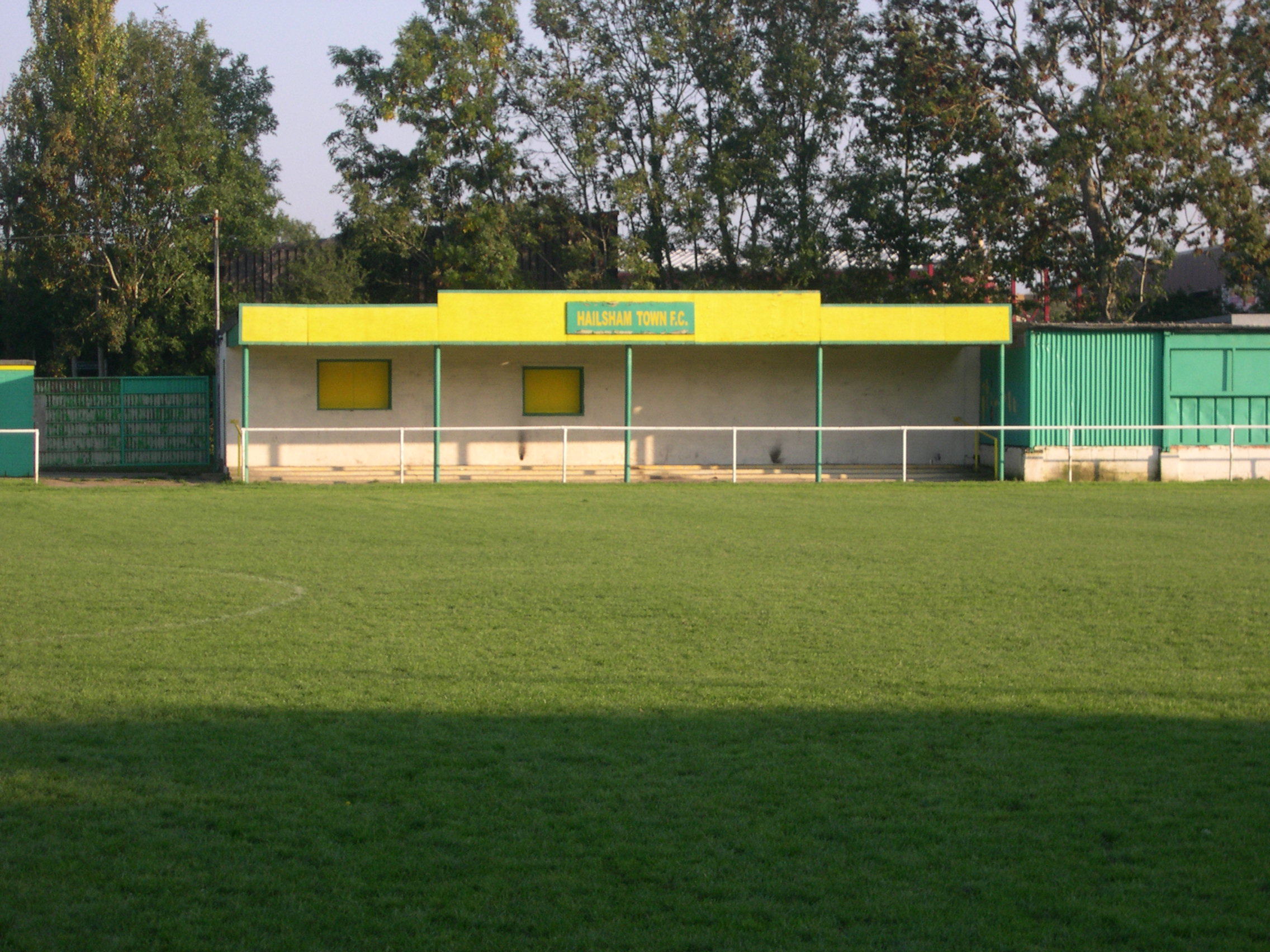 The Main stand at The Beaconsfield, home of Hailsham Town FC, taken in 2006.